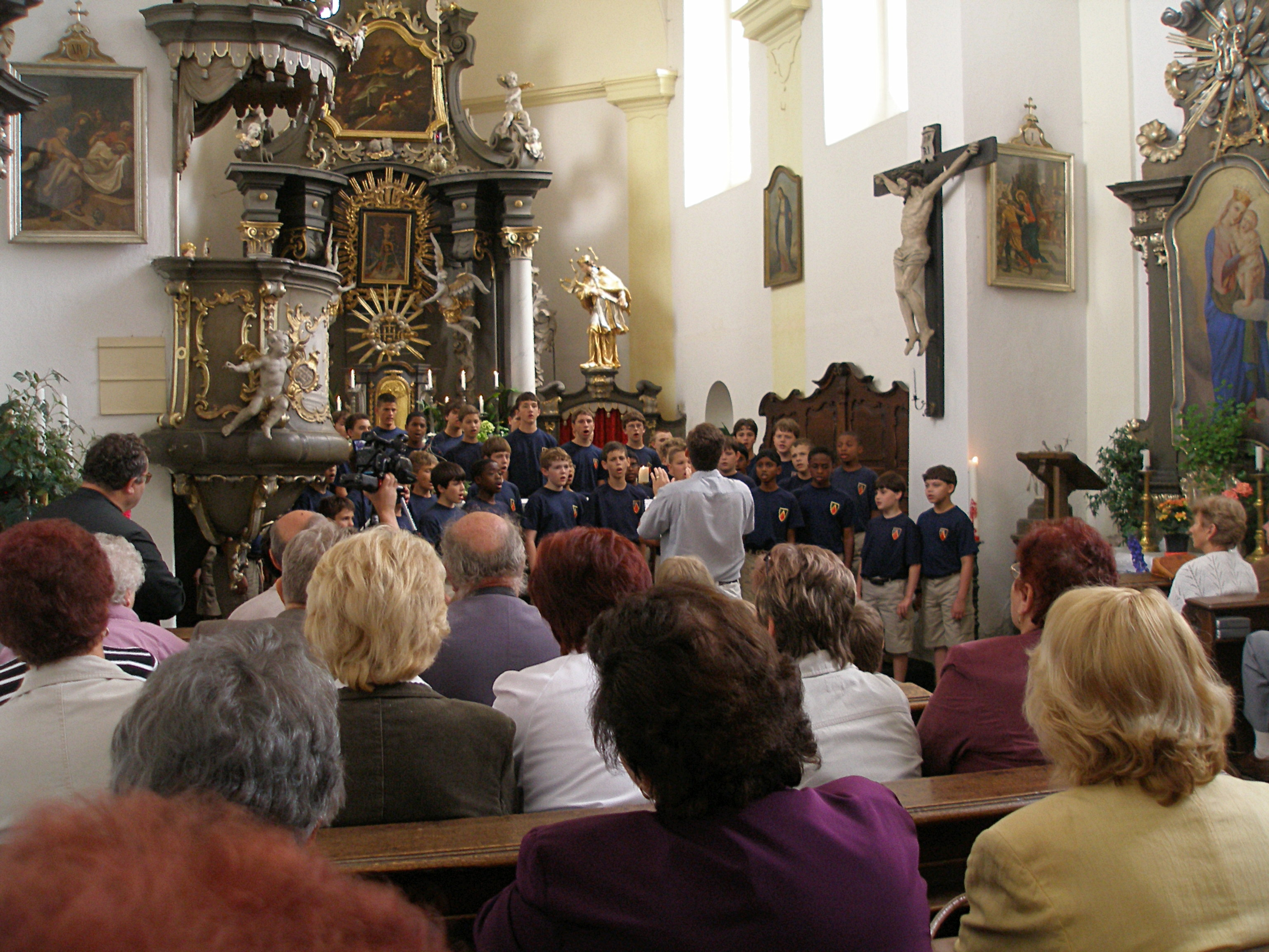 Nový Knín - the Concert of Atlanta Boy Choir in the St. Nicholas church (2009-06-25)